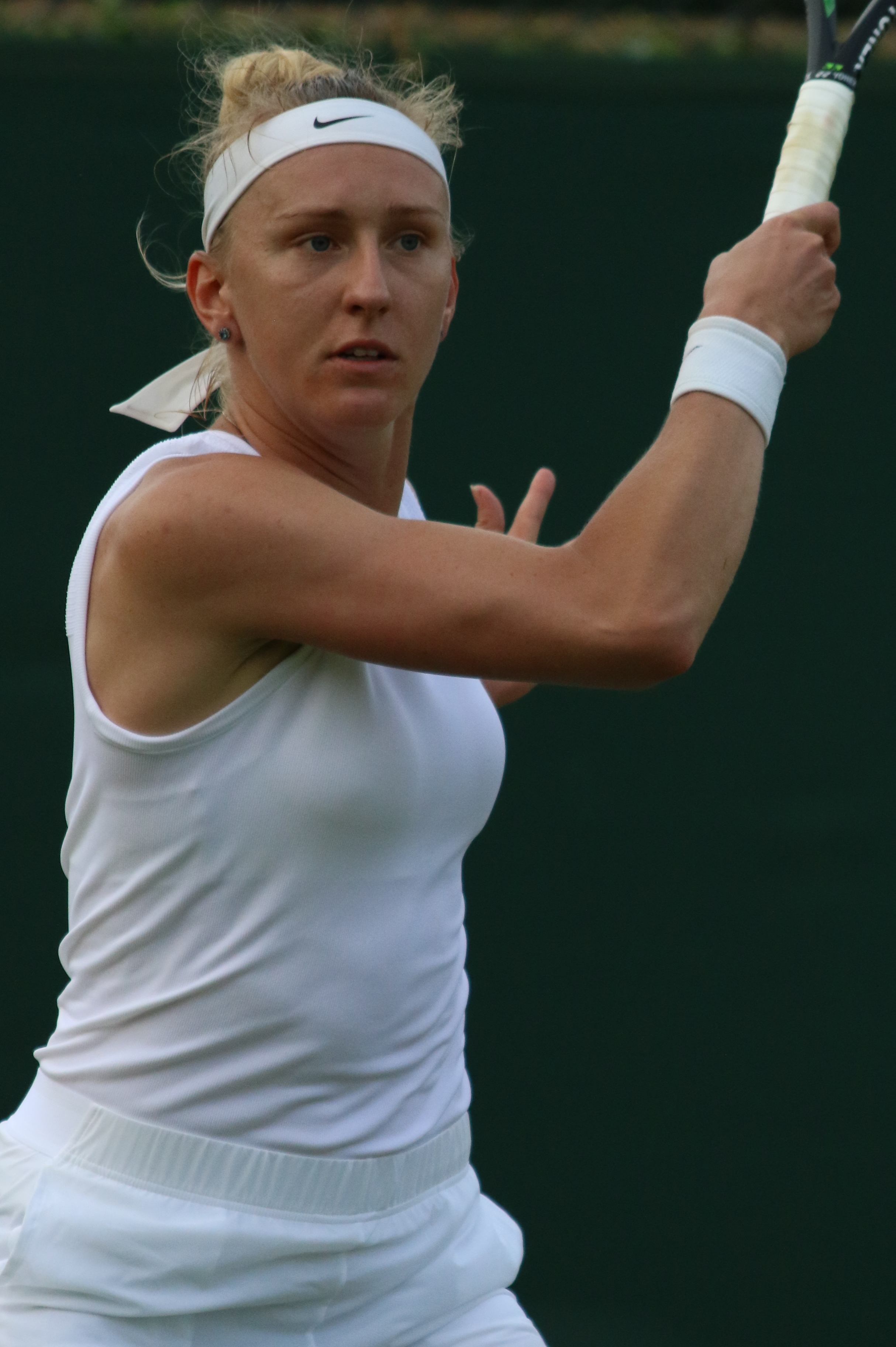 2019 Wimbledon Qualifying Tournament.